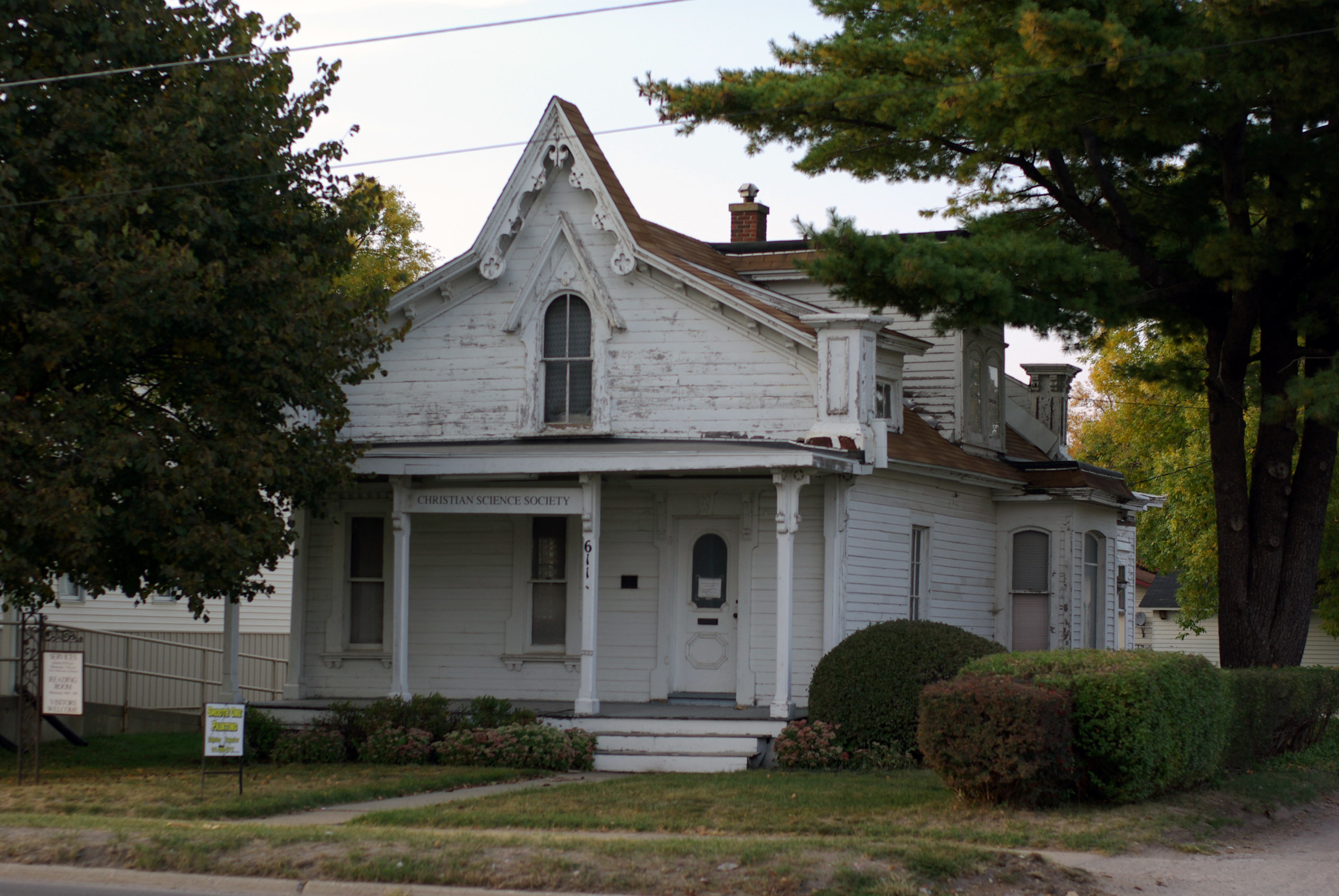 Charles H. Spencer House From across the street.